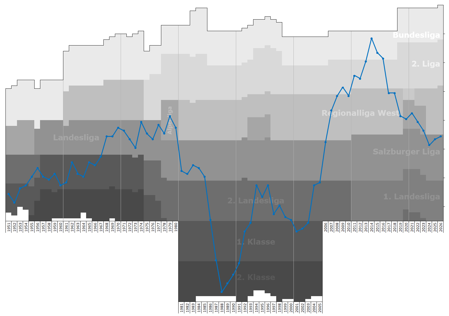 Chart of end-season table positions of Grödig in the Austrian football league system. Data source: RSSSF, , regiowiki.at, wfv.at, wikipedia